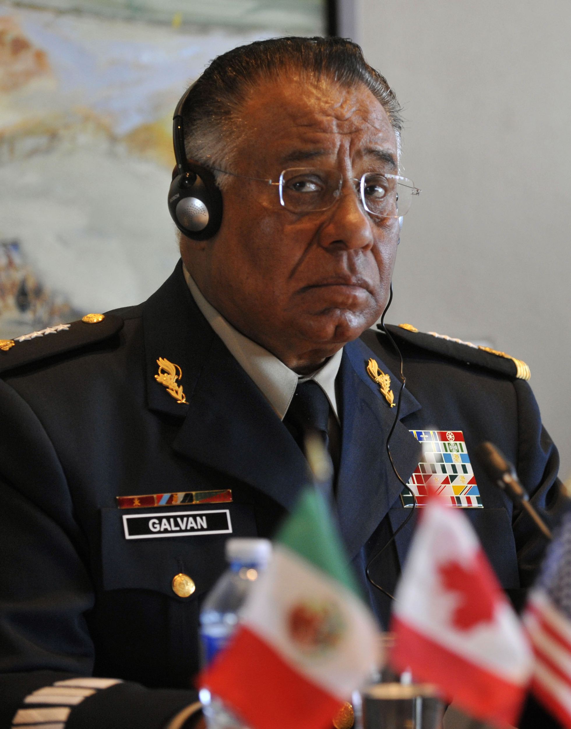 Mexican Secretary of National Defense Gen. Guillermo Galvan Galvan takes his seat at the table as he meets with Canadian Minister of Defense Peter MacKay and U.S. Secretary of Defense Leon E. Panetta as they engage in trilateral meetings at the Lester B. Pearson Building in Ottawa, Canada, Tuesday, March 27, 2012. (DoD Photo by Glenn Fawcett)